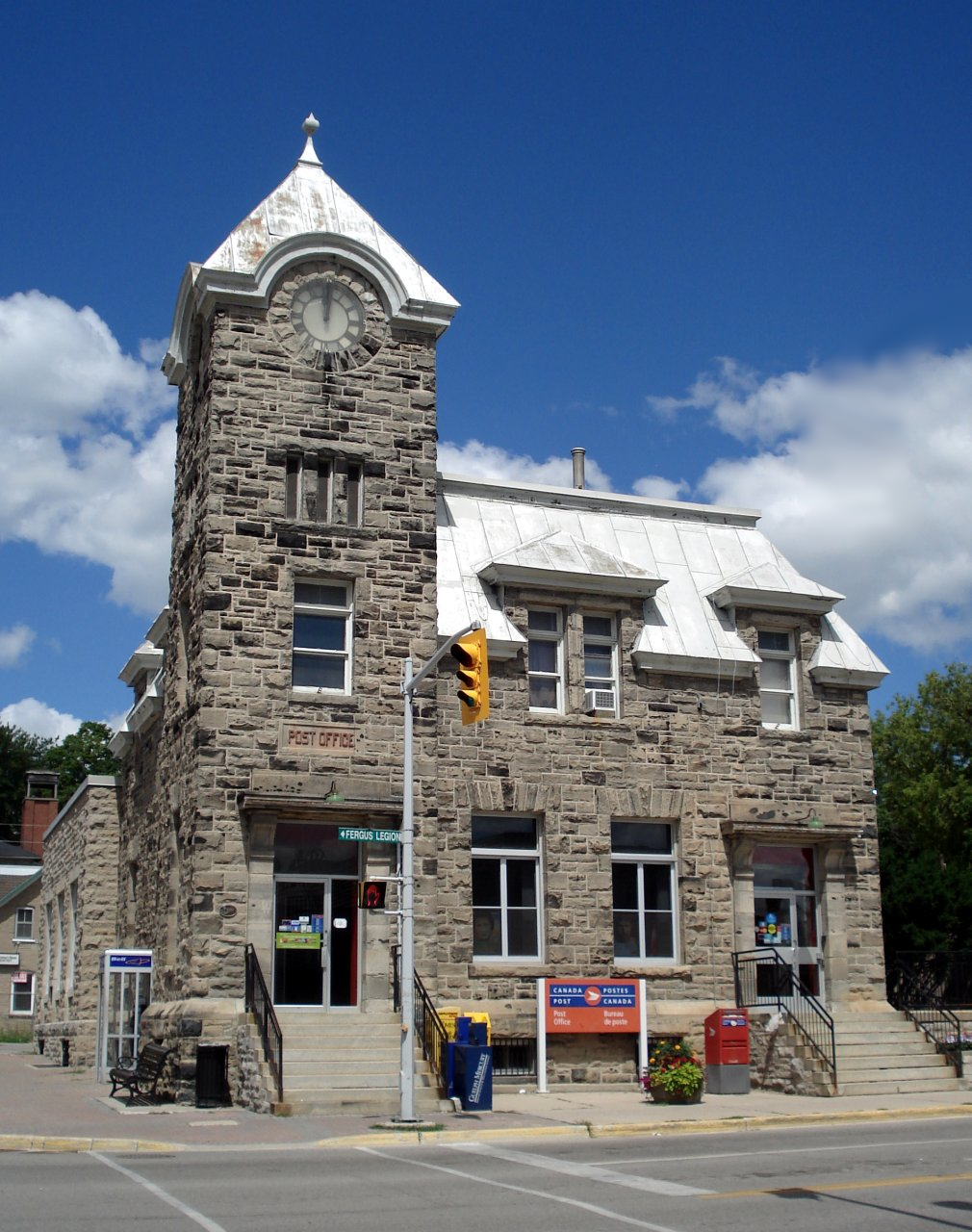 Post Office in Fergus, Ontario